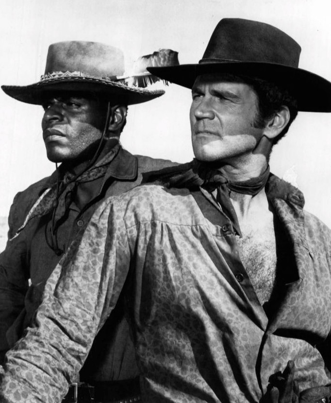 Photo of Otis Young as Jernal David and Don Murray as Earl Corey from the television program The Outcasts.